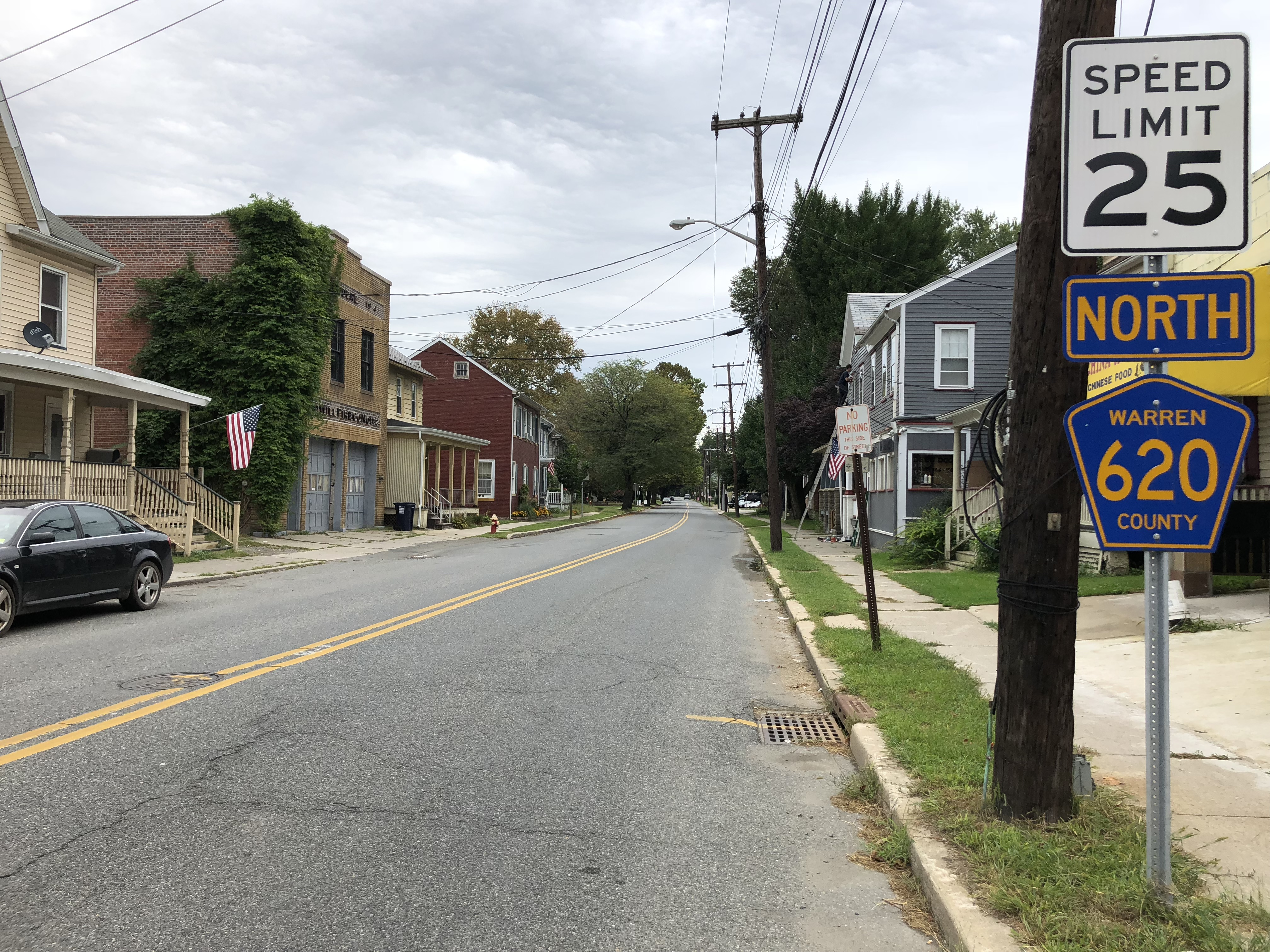 View north along Warren County Route 620 (Water Street) just north of Greenwich Street and Market Street in Belvidere, Warren County, New Jersey